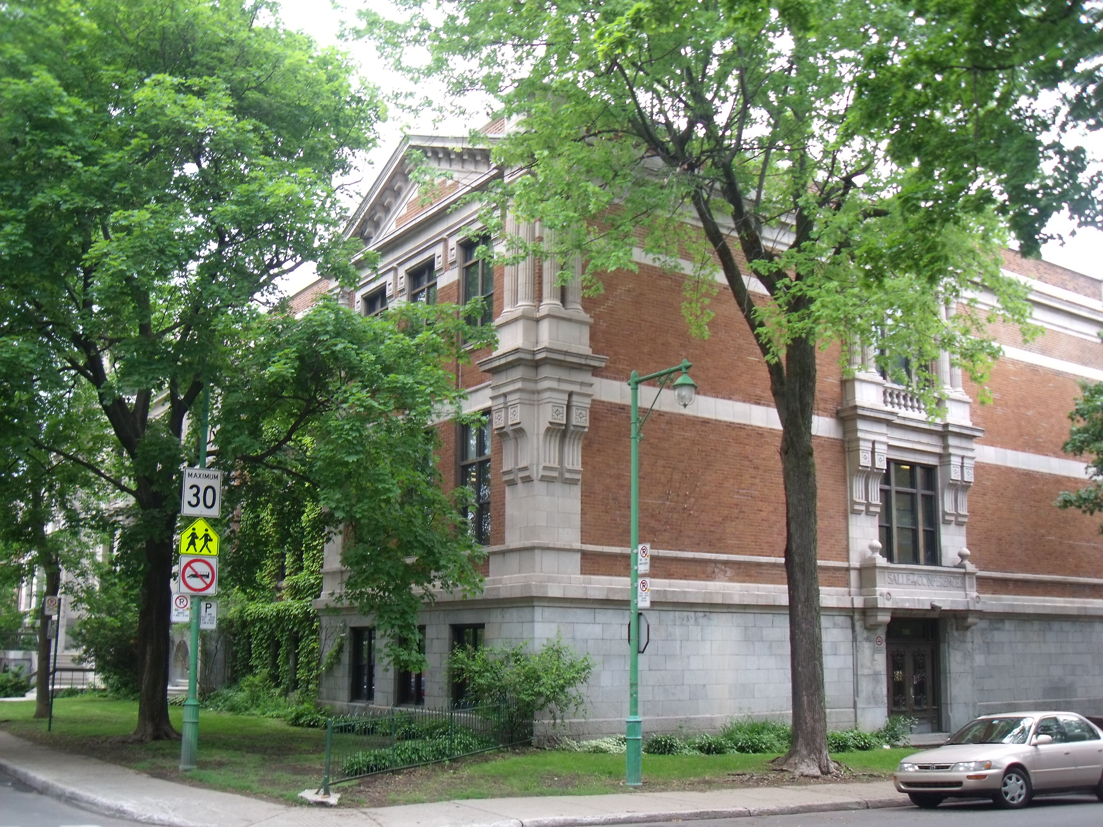 The Académie Querbes Building houses the Nouvelle-Querbes school, 215 Bloomfield avenue, Outremont, Quebec, Canada.